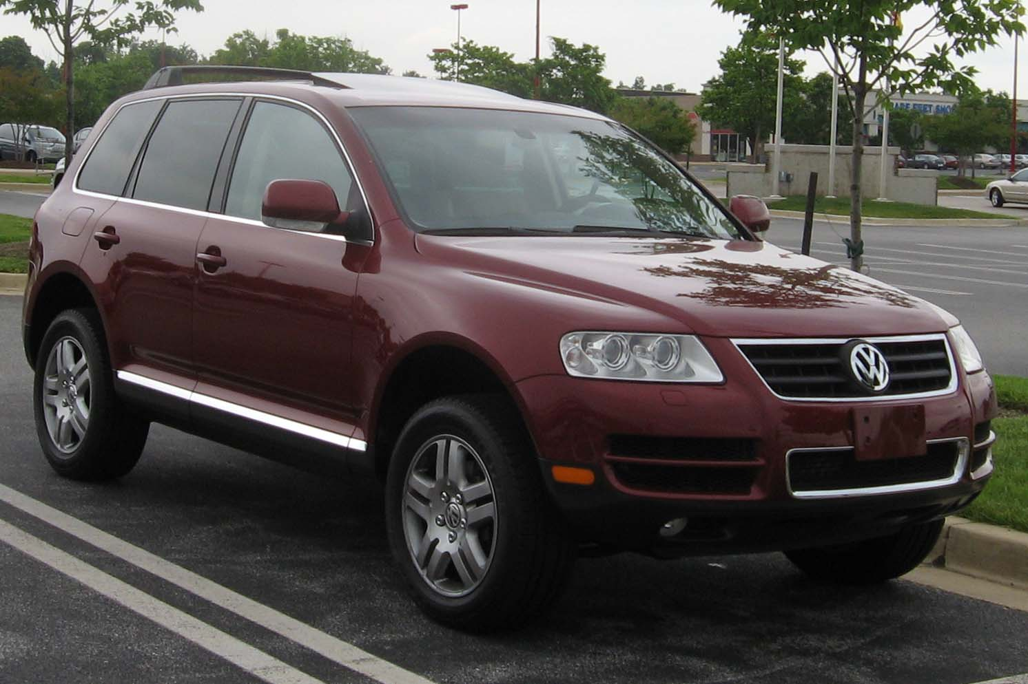 2003-2006 Volkswagen Touareg photographed in USA.